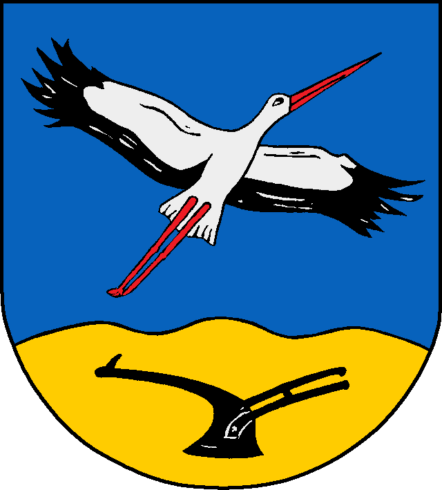 Coat of arms of the municipality Lehmrade in Schleswig-Holstein, Germany.